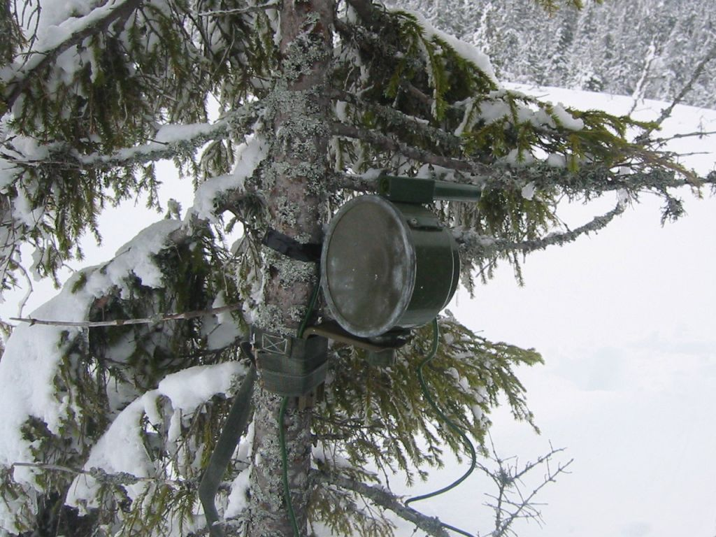 A swedish FFV 016 anti-tank mine.